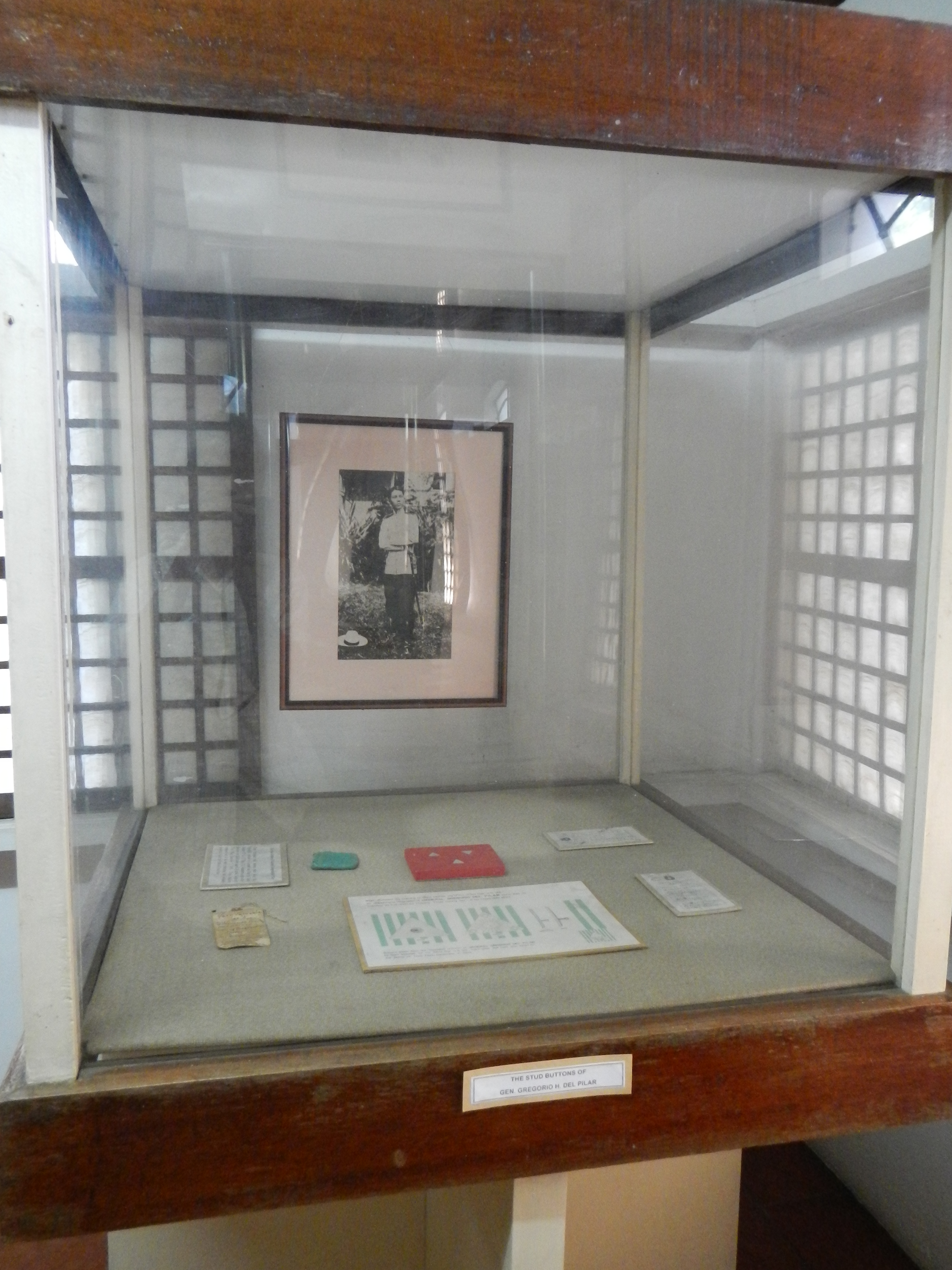 Bulacan, Bulacan[1] Museum